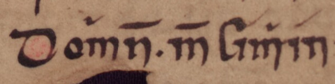 An excerpt from folio 36v of Oxford Bodleian Library Rawlinson B 489 (the Annals of Ulster). The excerpt concerns Domnall mac Eimín meic Cainnig (died 1014).